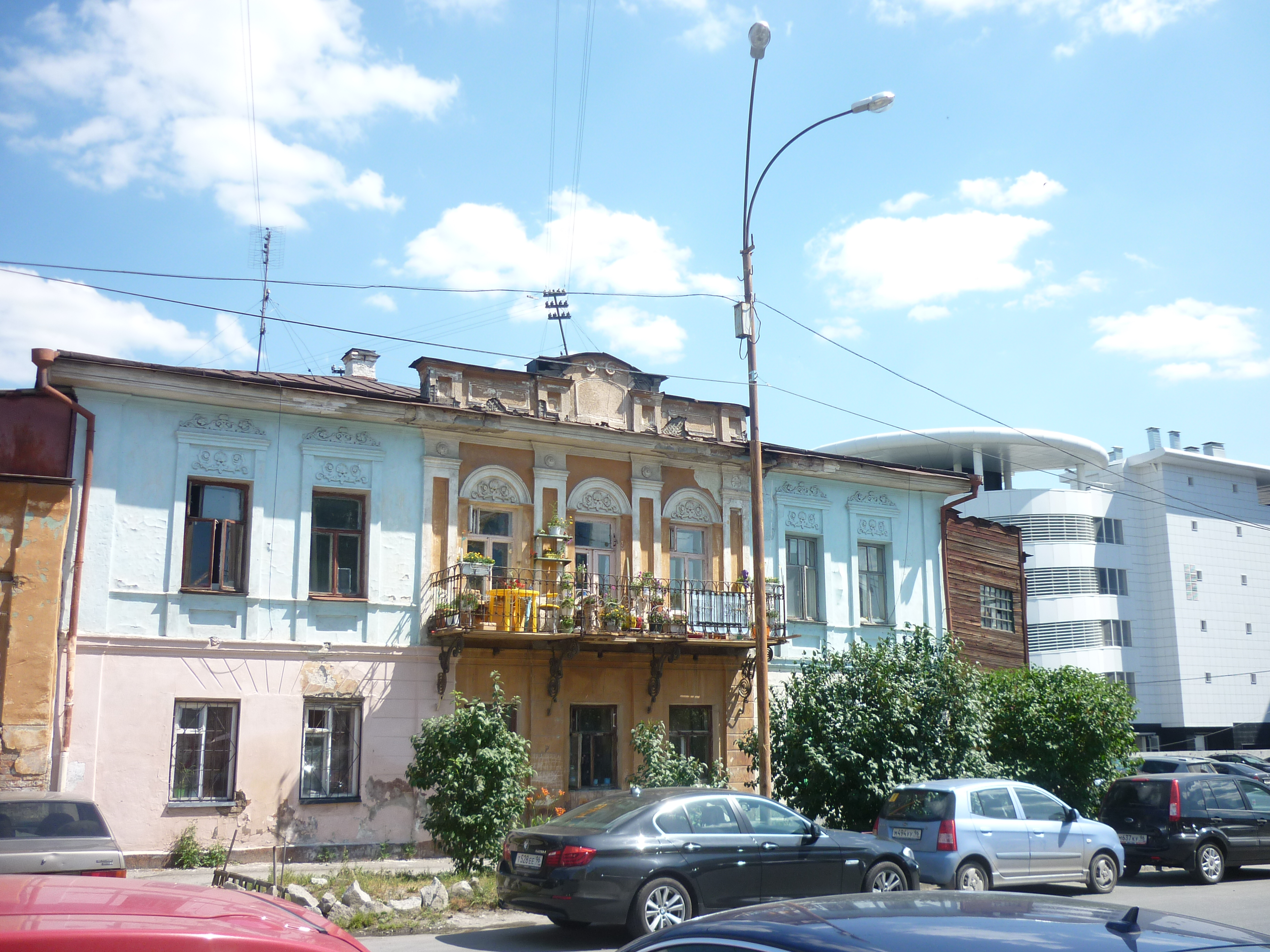 A house at Tchernyshevskogo Street (Yekaterinburg)